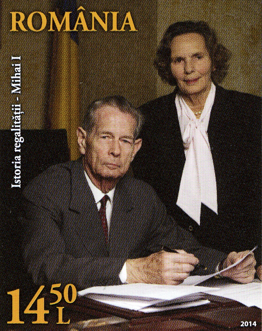 The History of Royalty - Michael I